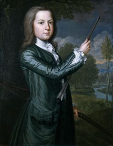 Portrait of James Bowdoin at the age of nine.